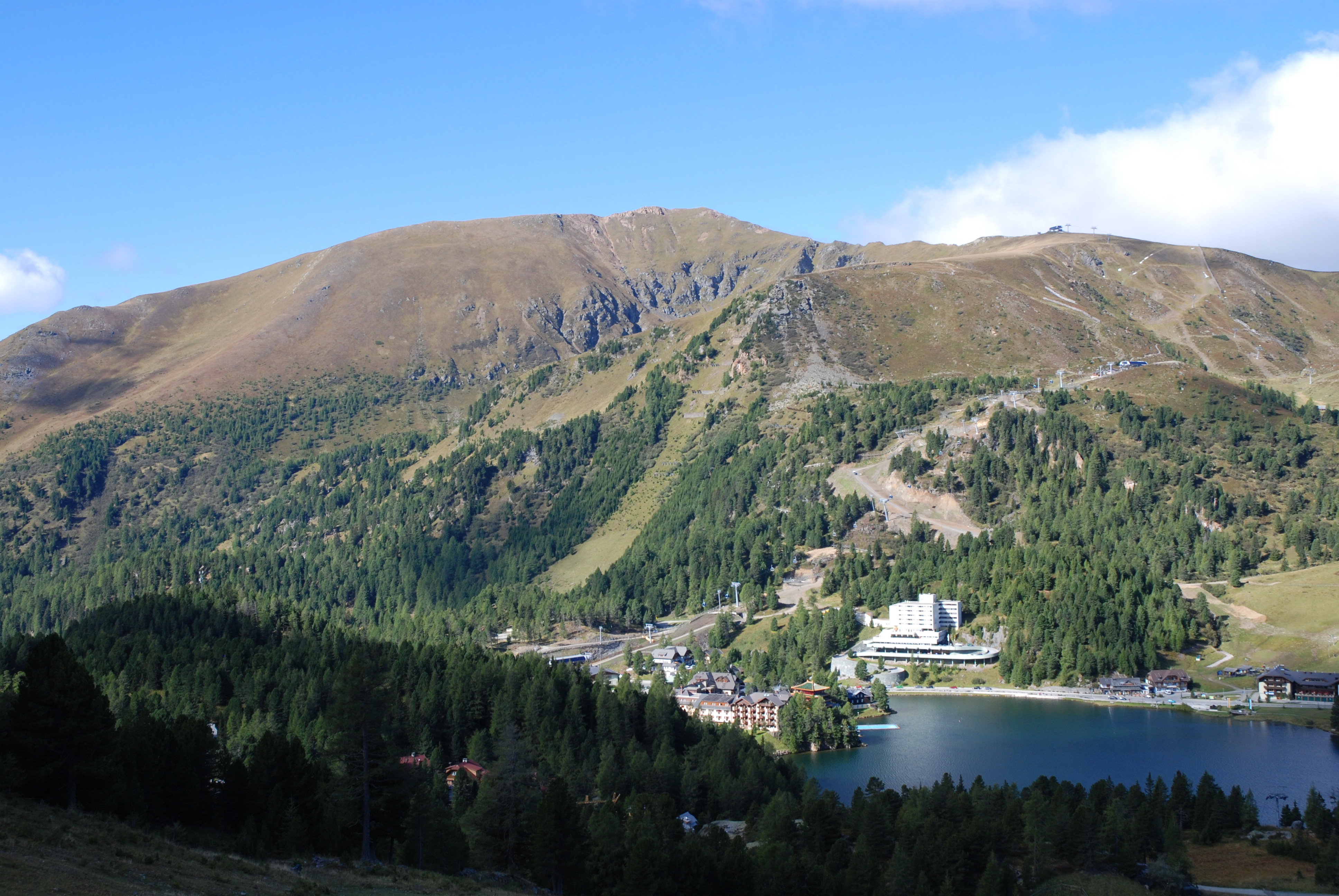 Rinsennock (left) and Kornock (right), Nockberge, Carinthia, Austria